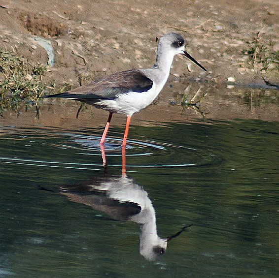 Black-winged Stilt Himantopus himantopus Immature at Hodal in Faridabad District of Haryana, India.